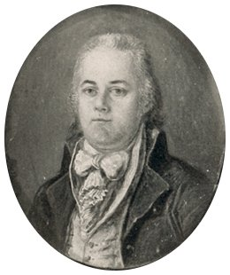 Andrew Ellicott on a medallion from 1799.